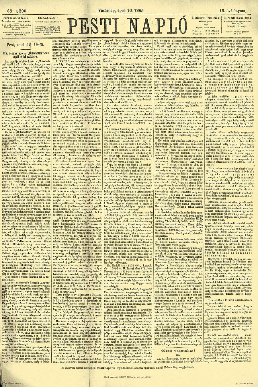 Article of Ferenc Deák, in Pesti Napló, April 16th, 1865 ("The Easter Article")